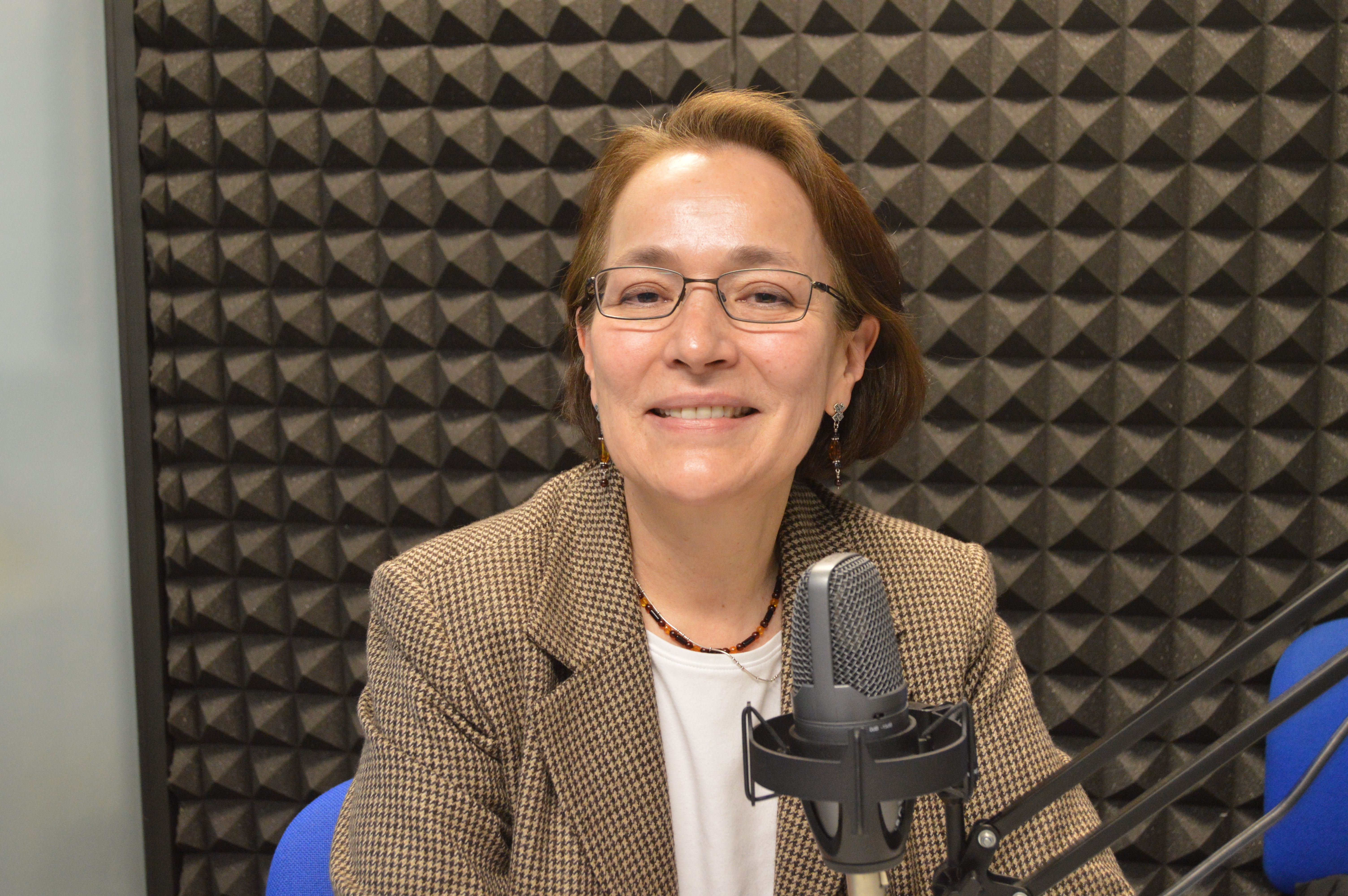 Mexican astrophysicist Susana Lizano interviewed by Conacyt.